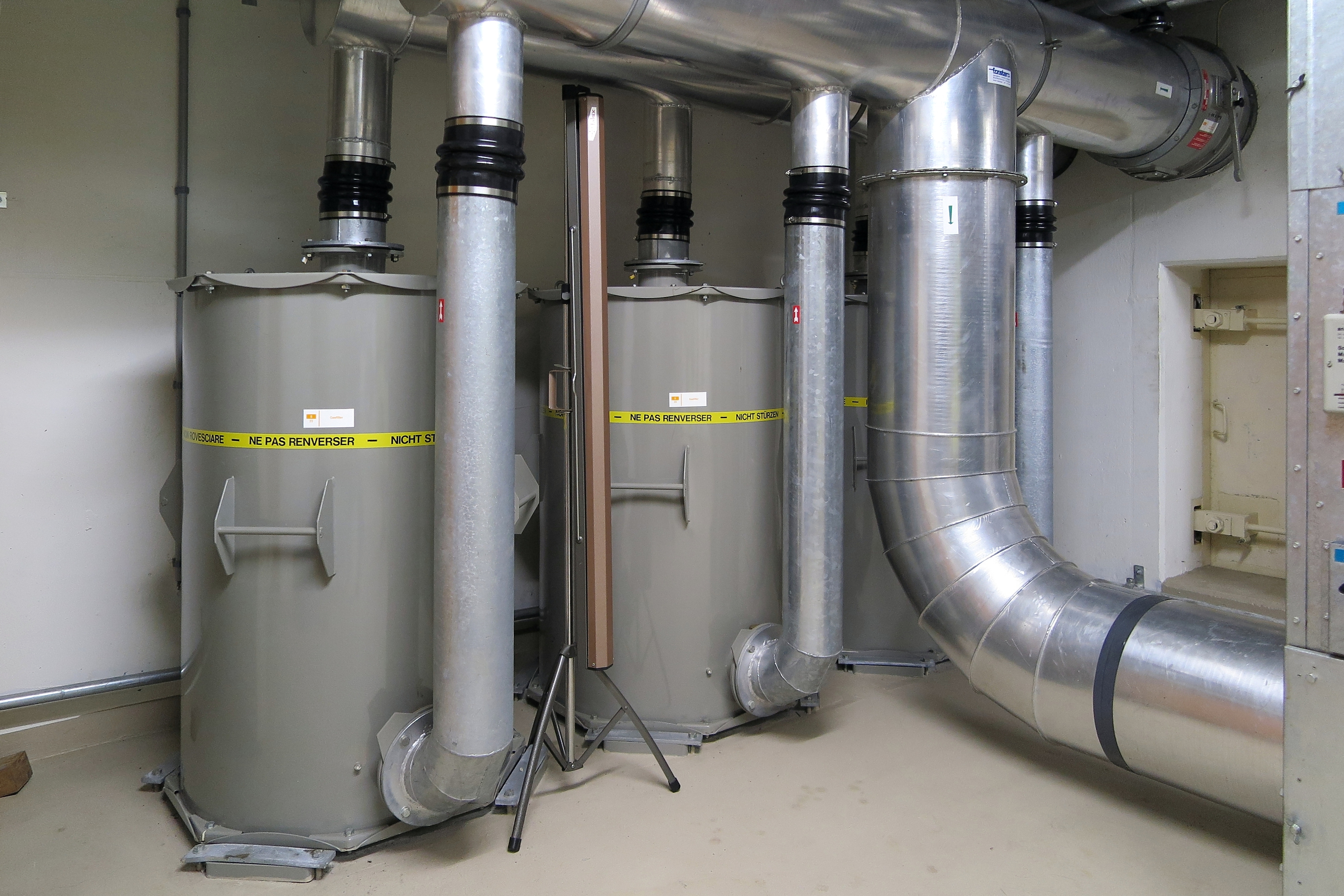 Filters in the ventilation room. Berneck, Switzerland, Nov 19, 2014. (13/43)